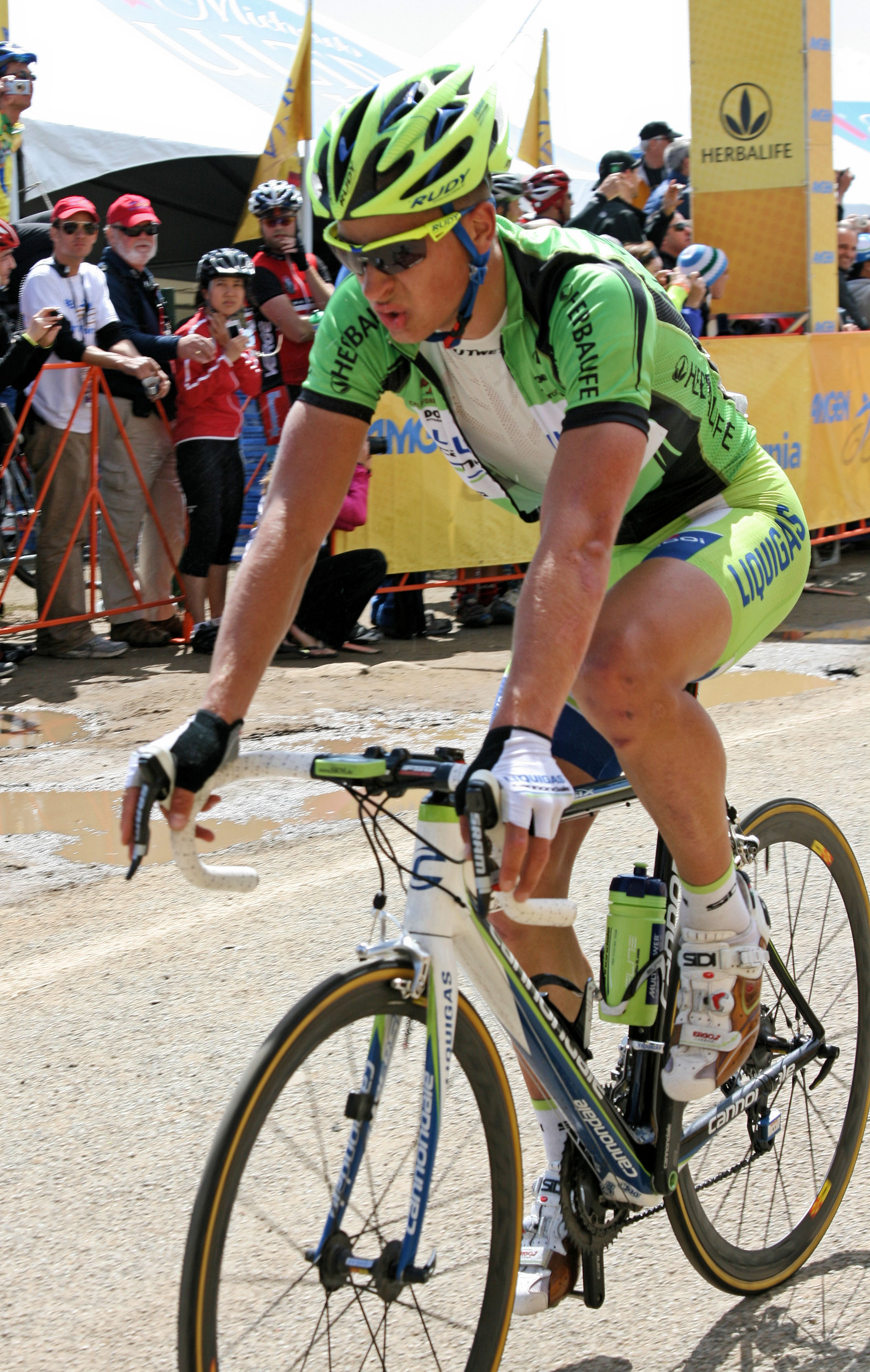 Liquigas-Cannondale 2011 Amgen Tour of California Stage 4 finish Sierra Road San Jose, California. You're free to use this photo, but you MUST attribute to Richard Masoner / Cyclelicious and (if an online publication) link to I biked 30 miles for this shot, so I'd like something for my effort. Thank you.